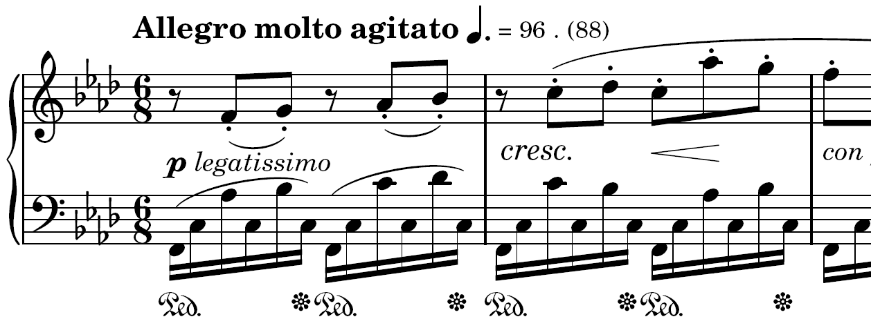 Opening from an Étude (Op.10 No.9) composed by Frédéric Chopin, made in lilypond version 2.12.0